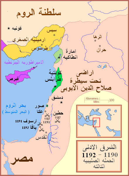 A map showing the Near East (the Levant) in 1190.